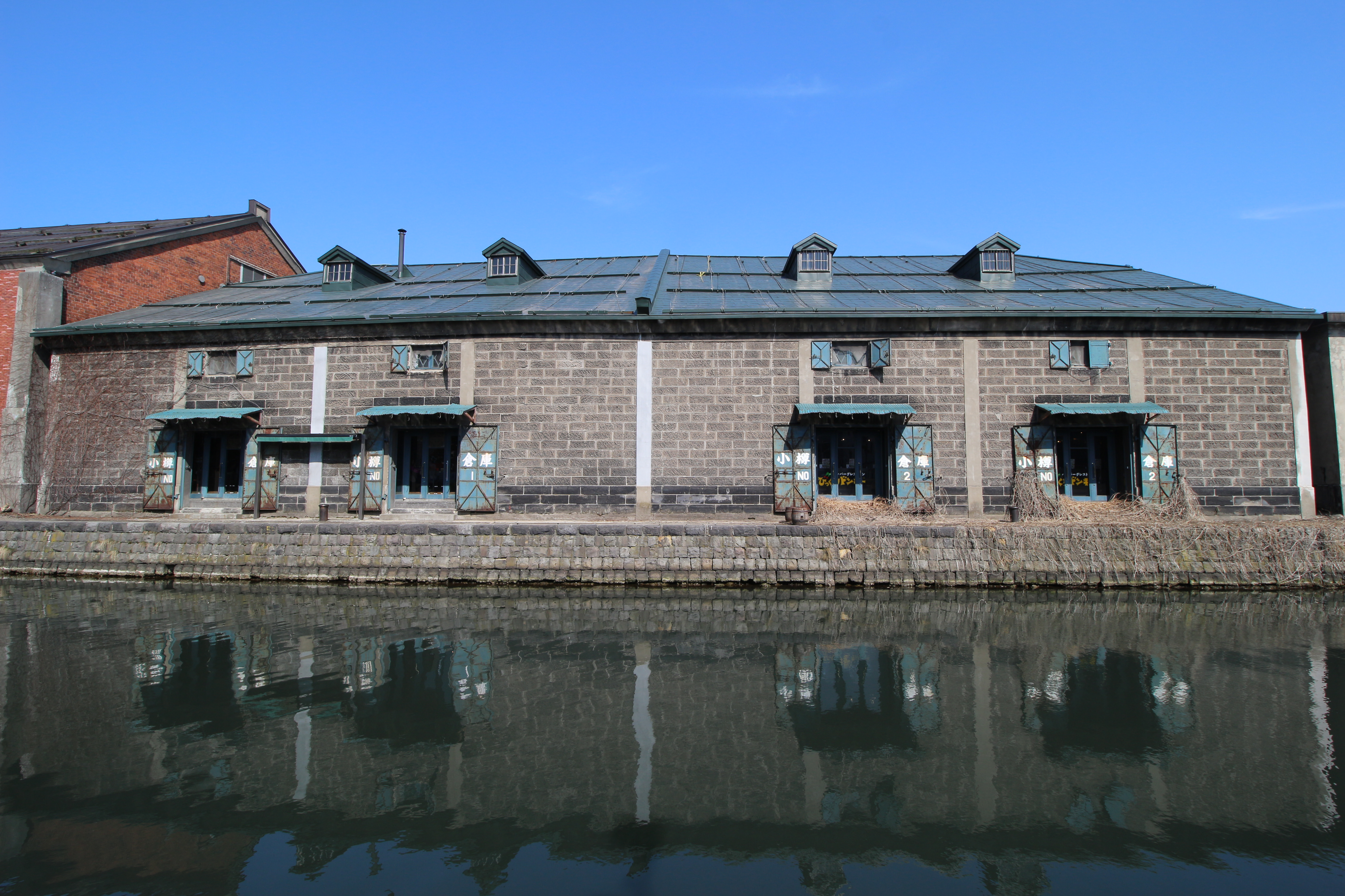 Otaru Beer Brewery in Otaru, Hokkaido.